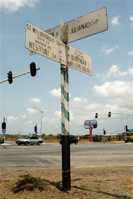 ANWB roadsign near Willemstad, Curacao